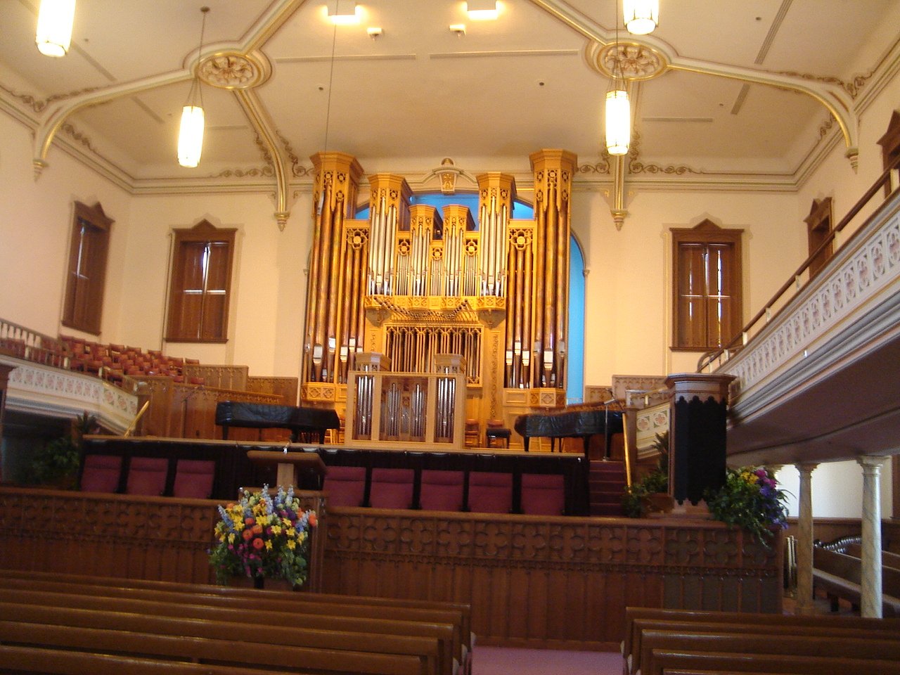 Assembly Hall organ, Salt Lake City, June 2008